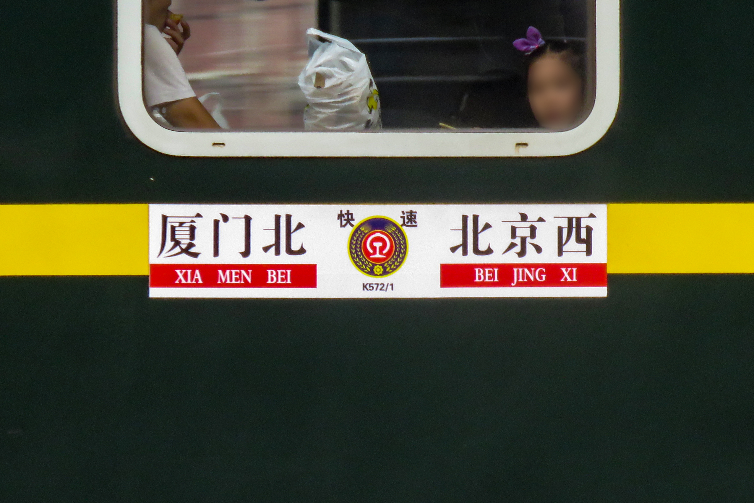 This one also goes to Xiamenbei.